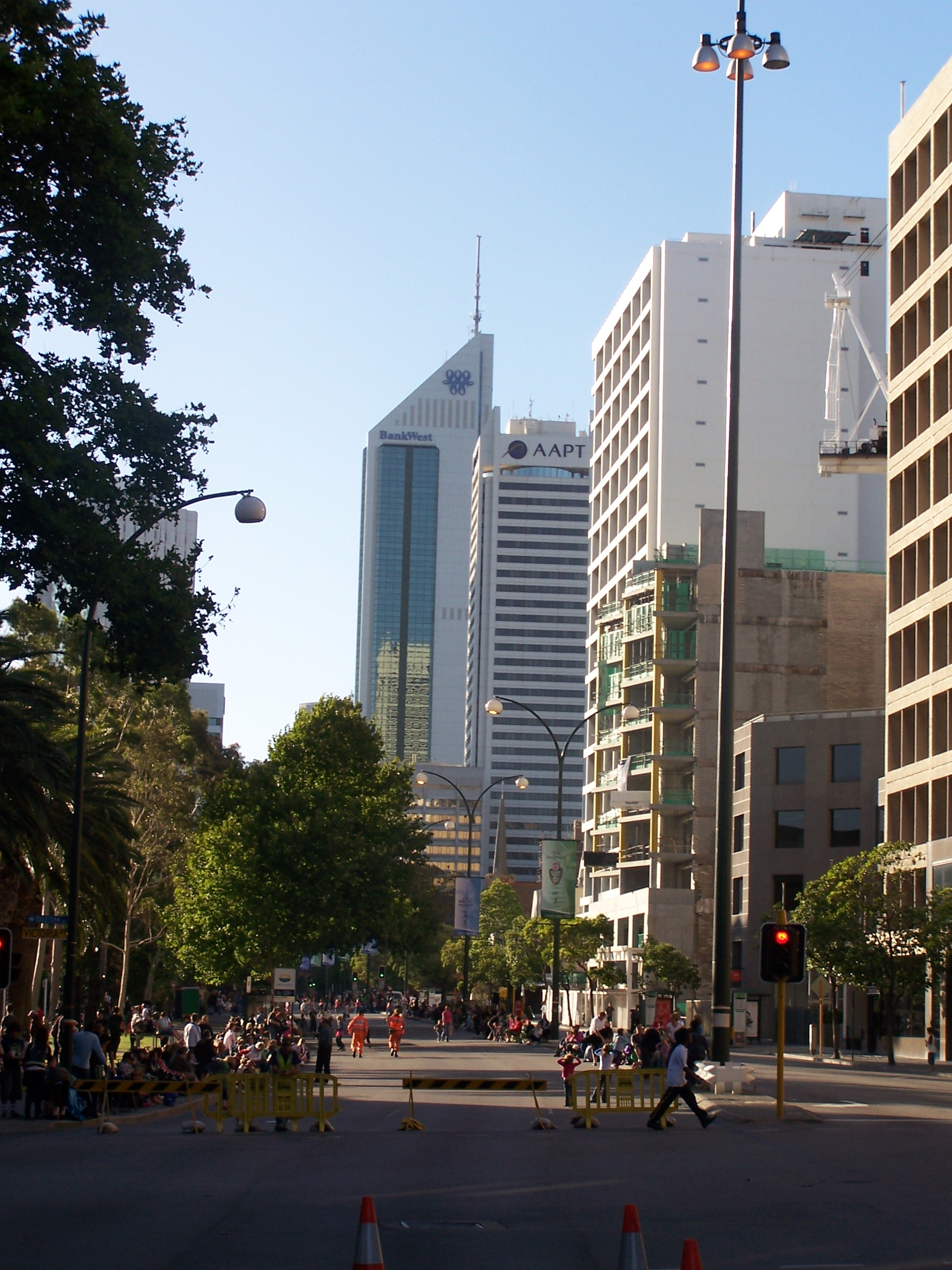 Perth CBD area St georges Tce looking west from corner of Victoria Avenue #1 St georges tce on the left